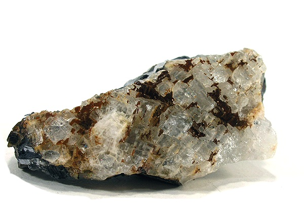 Cryolite, Siderite Locality: Ivigtut Cryolite deposit, Ivittuut (Ivigtut), Arsuk Firth, Arsuk, Kitaa (West Greenland) Province, Greenland (Locality at ) Size: small cabinet, 7.4 x 3.6 x 2.1 cm Cryolite with Siderite For the last 200 years, these colorless and lustrous, pseudo cubes, of cryolite, from Greenland, a rare sodium, aluminum, fluoride, have been the standard for the species. The locality is not only now long gone, its underwater. THey mined it below sea level, to get cryolite as an important flux agent for the refining of alumninum. Associated with rust colored siderite, some of the cryolite crystals reach .7 cm across. This is a very showy, excellent, affordable, and good-sized example of this now-vanished species